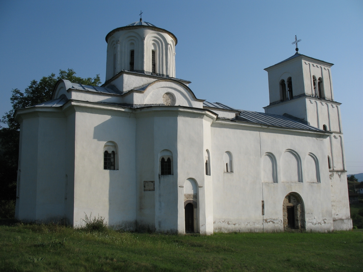 Nova (New) Pavlica church (former medieval monastery) in Pavlica,Raška municipality,Serbia.